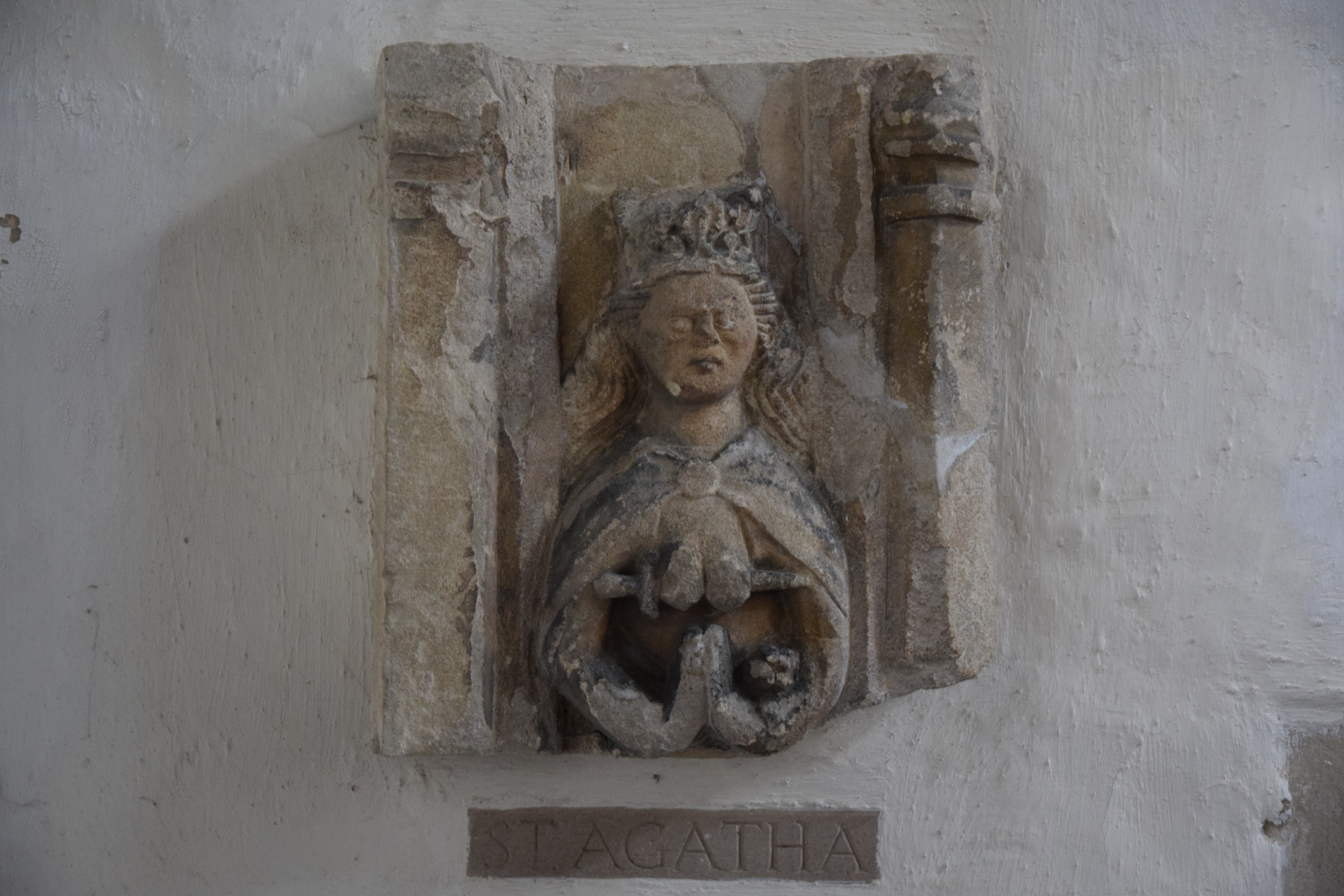 Lechlade Church (Saint Lawrence), Gloucestershire, 6 September 2018. Perpendicular, 15th Century naver and chancel (1470-76), early 16th Century nave clerestory and roof, north porch, tower and spire. Pictured is a 15th Century carved figure of Saint Agatha found in a nearby garden and inserted in the church in 1981.